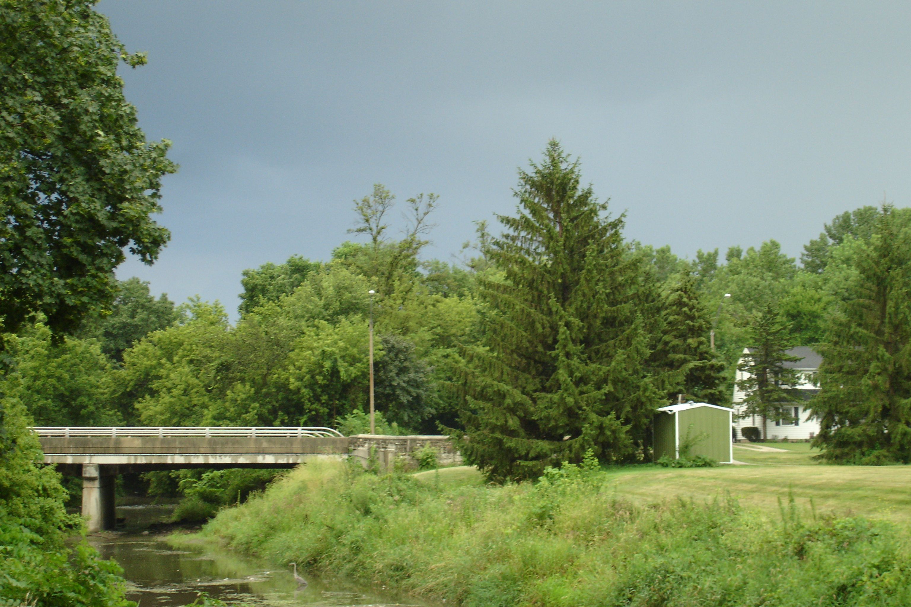 A mid-September thunderstorm rolls into DeKalb over the Kishwaukee River. A great blue heron stands in the river near a bridge.